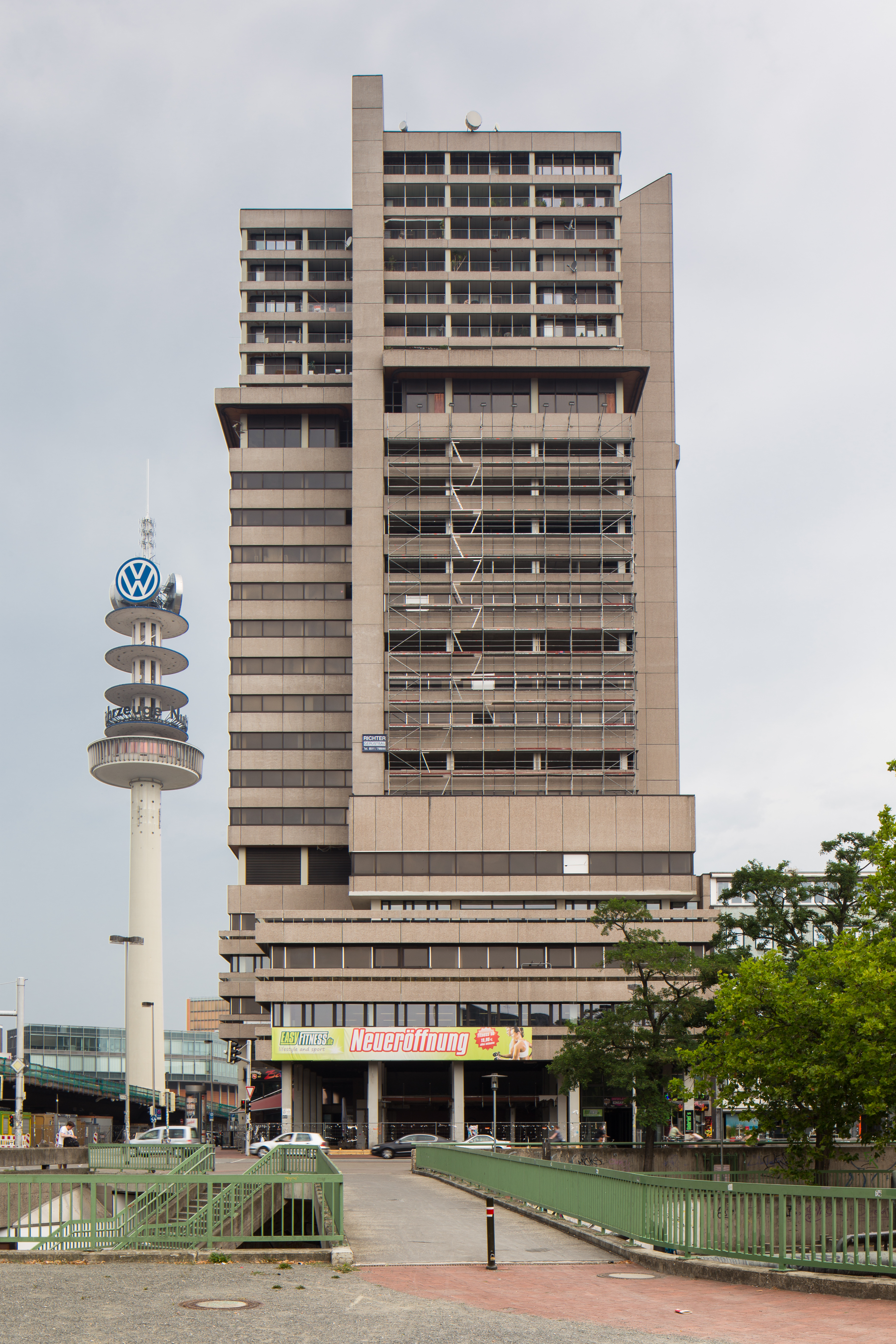 High-rise "Lister Tor" ("Bredero-Hochhaus") located at Hamburger Allee in Oststadt quarter of Hannover, Germany. The east side is pictured.